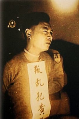 行刑前的黃榮燦教授